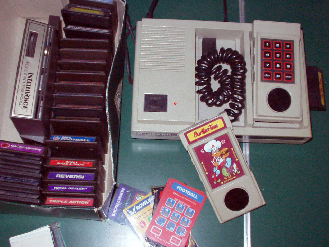 Intellivision II featuring the game Burger Time. Also shown is the voice synthesis module.